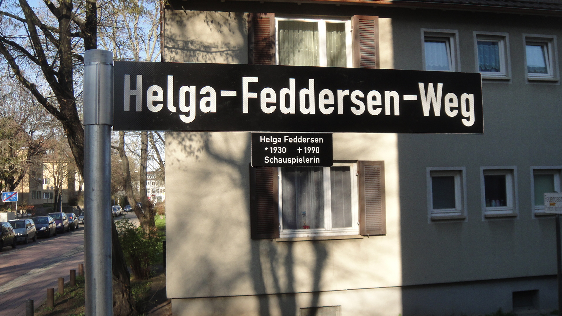 Street sign Helga-Feddersen-Weg in Stuttgart, Germany, named in honor of actress Helga Feddersen